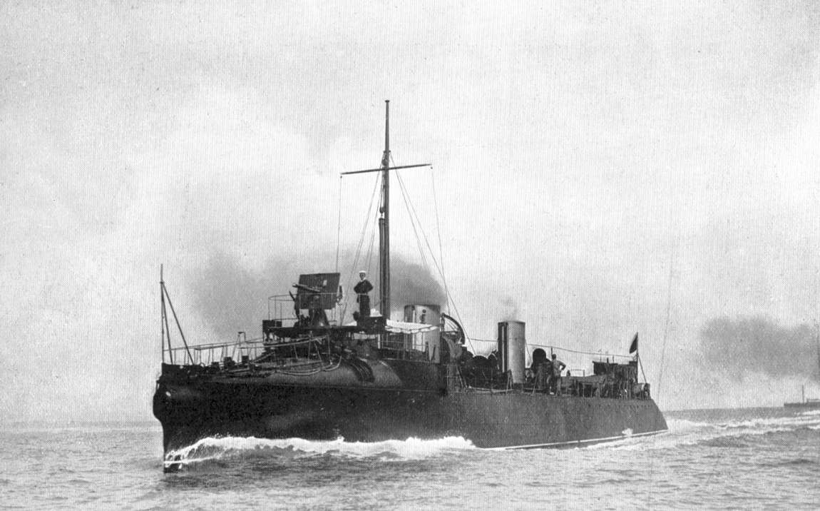 Photograph of British destroyer HMS Daring.